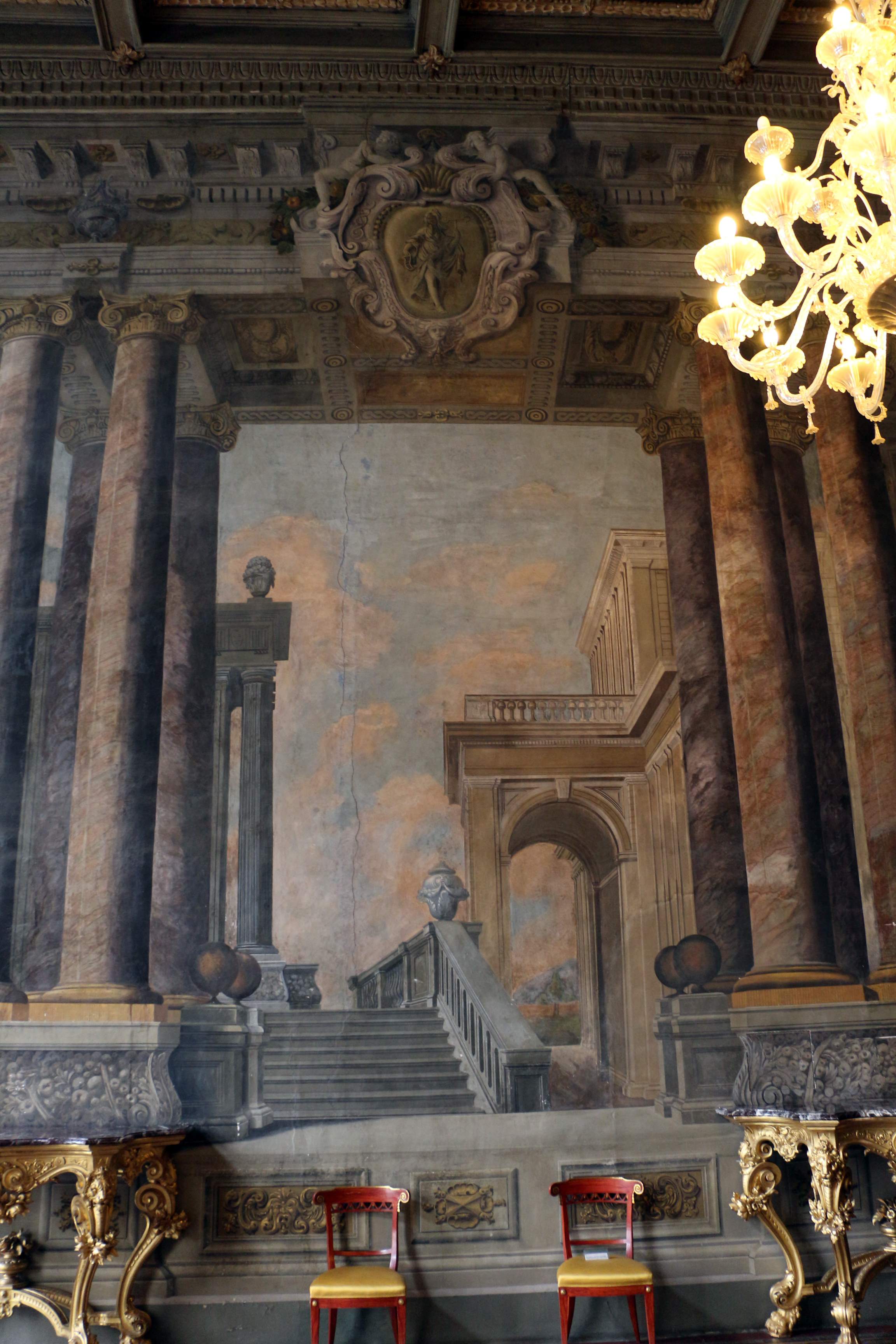 Palazzo dei Cerretani - Main Hall